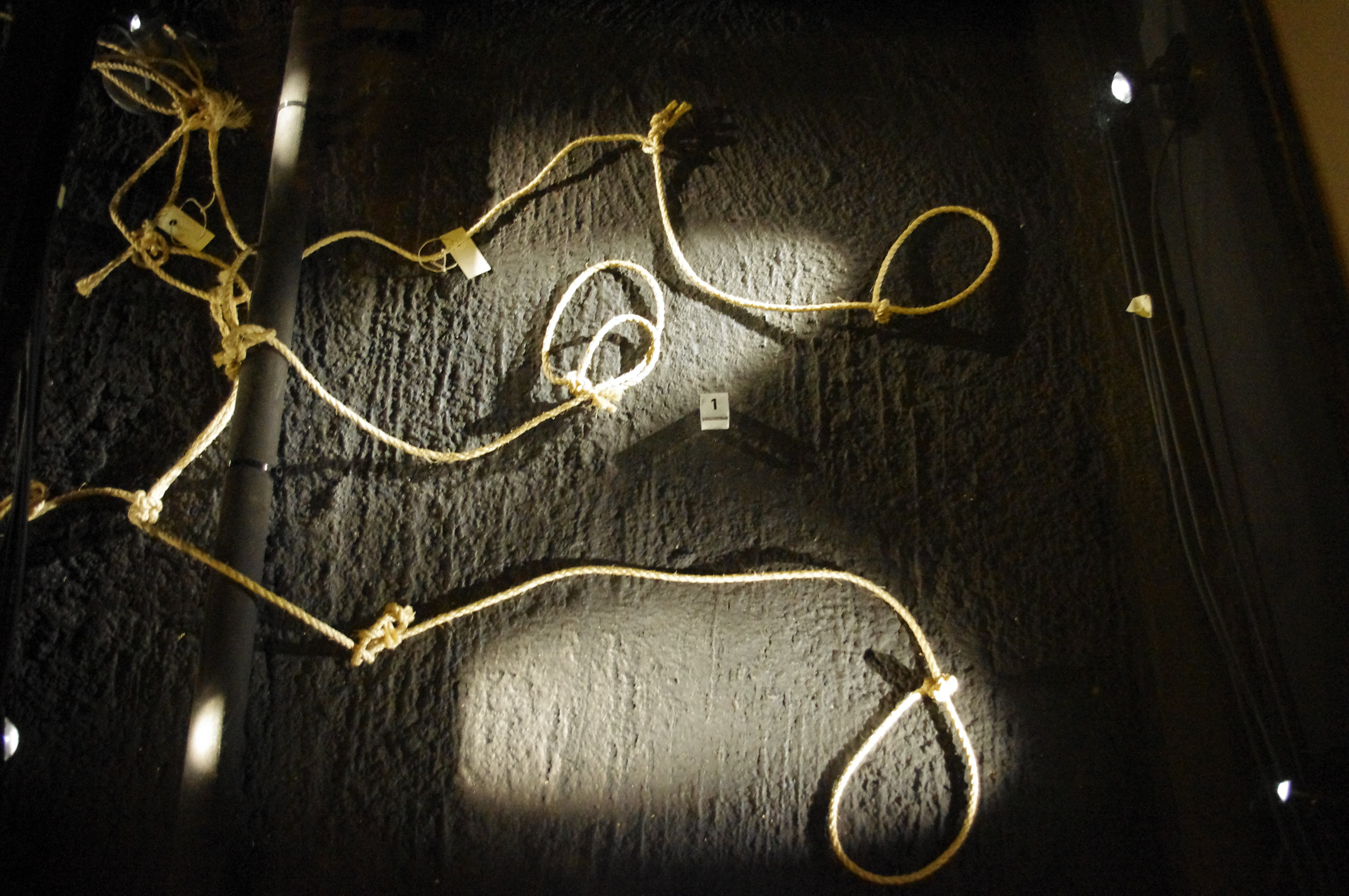 Nooses from the Norrmalmstorg robbery in 1973.